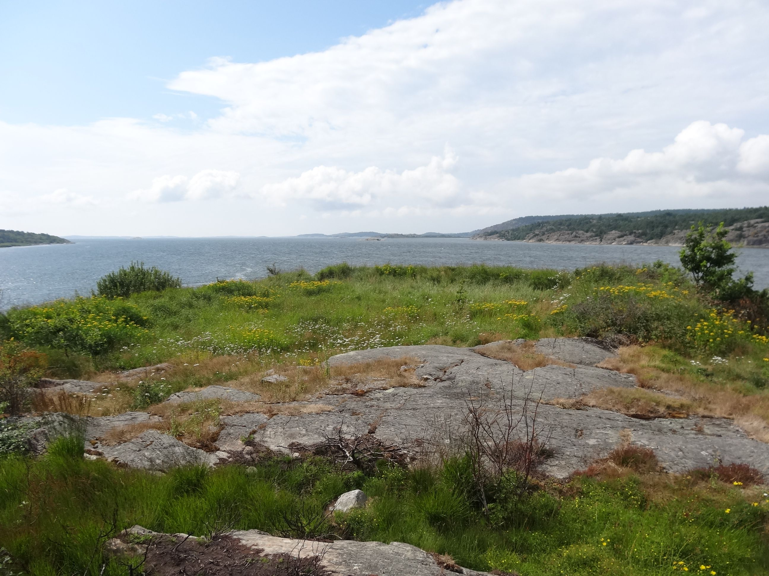 View towards west from Kippholmen i Nordre älv estuary, north of Gothenburg, Sweden. Fortifications from early 18th century, can still be seen in the terrain.